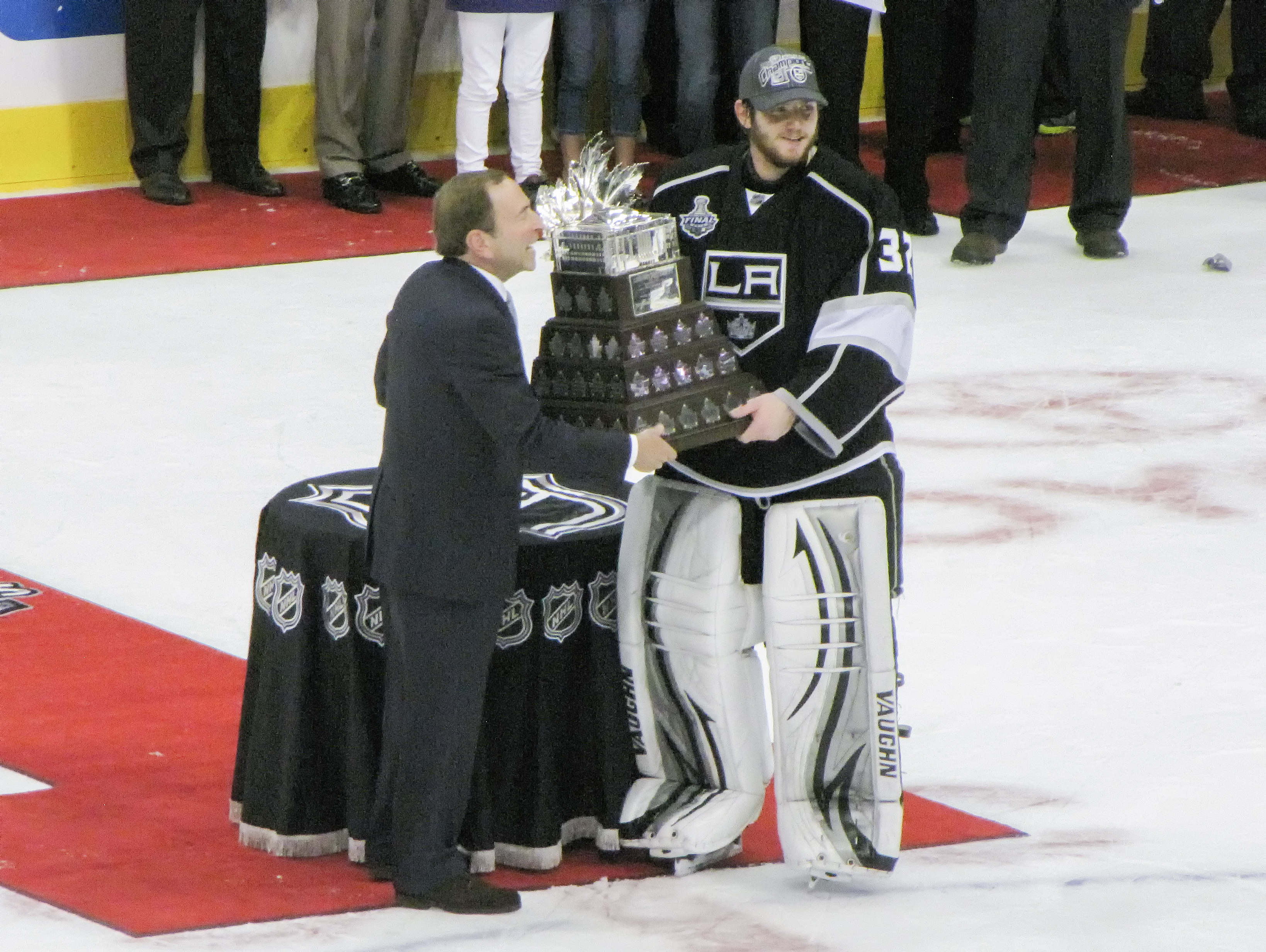 Jonathan Quick awarded Conn Smythe Trophy by NHL Commissioner Gary Bettman